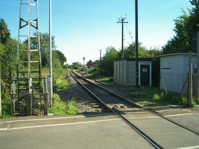 Site of Chipping Campden Station. Looking South from the level crossing. There has been a campaign to re-open a station here, particularly to serve visitors and staff of the Campden & Chorleywood Food Research Association, which is situated just to left.